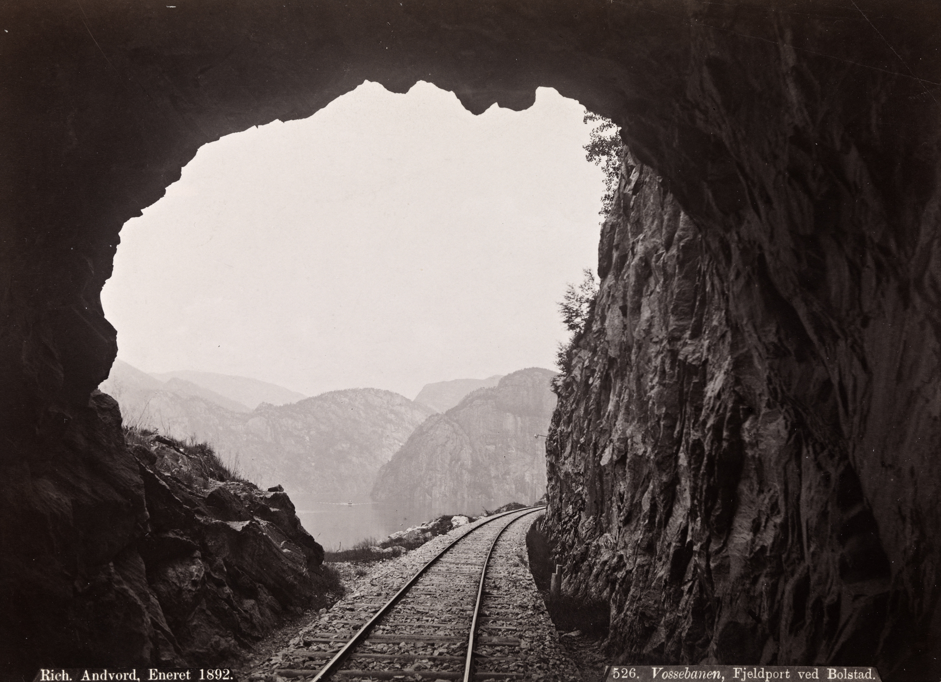 Tittel / Title: 526. Vossebanen, Fjeldport ved Bolstad Dato / Date: 1880-1890 Fotograf / Photographer: Axel Lindahl (1841-1906) Utgiver / Publisher: Rich. Andvord, 1892 Sted / Place: Hordaland Eier / Owner Institution: Nasjonalbiblioteket / National Library of Norway Lenke / Link: Bildesignatur / Image Number: bldsa_AL0526